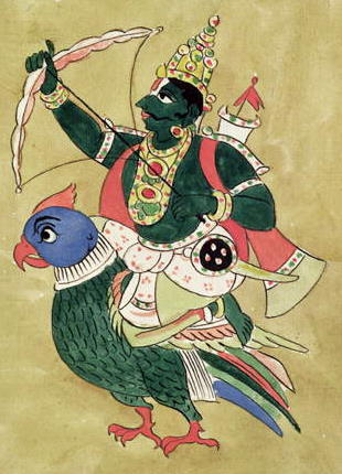 Product code: XIR175937 Copyright: © Bridgeman Art Library / Musee Guimet, Paris, France / Lauros / Giraudon